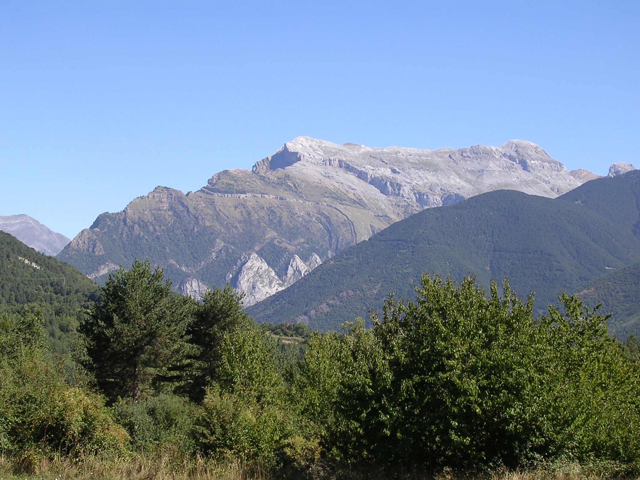 Sierra of Tendenera in Aragonese Pyrenees, photograph taken from Yosa de Sobremonte (Huesca, Spain)